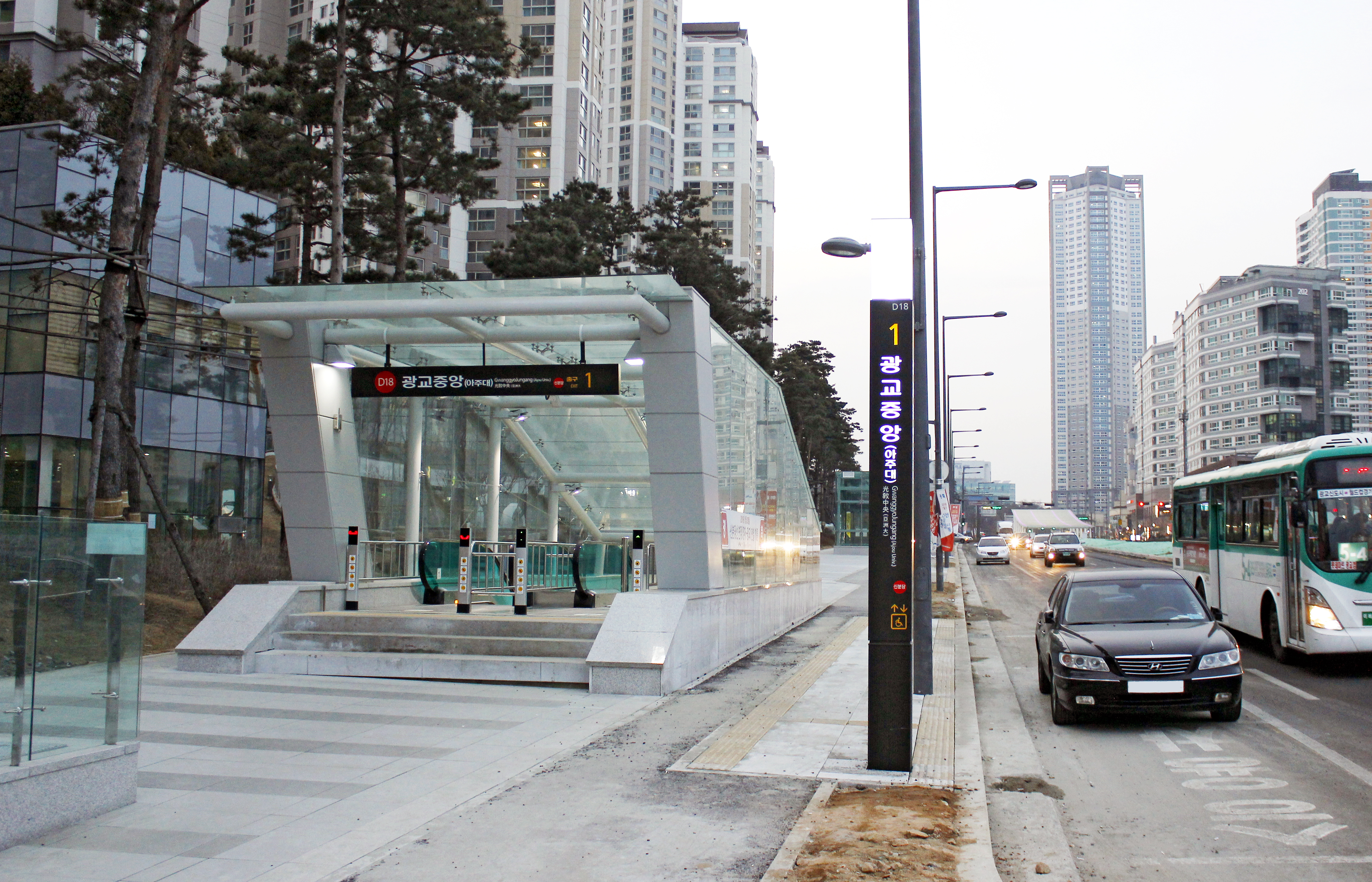 Gwanggyo Jungang Station Exit 1